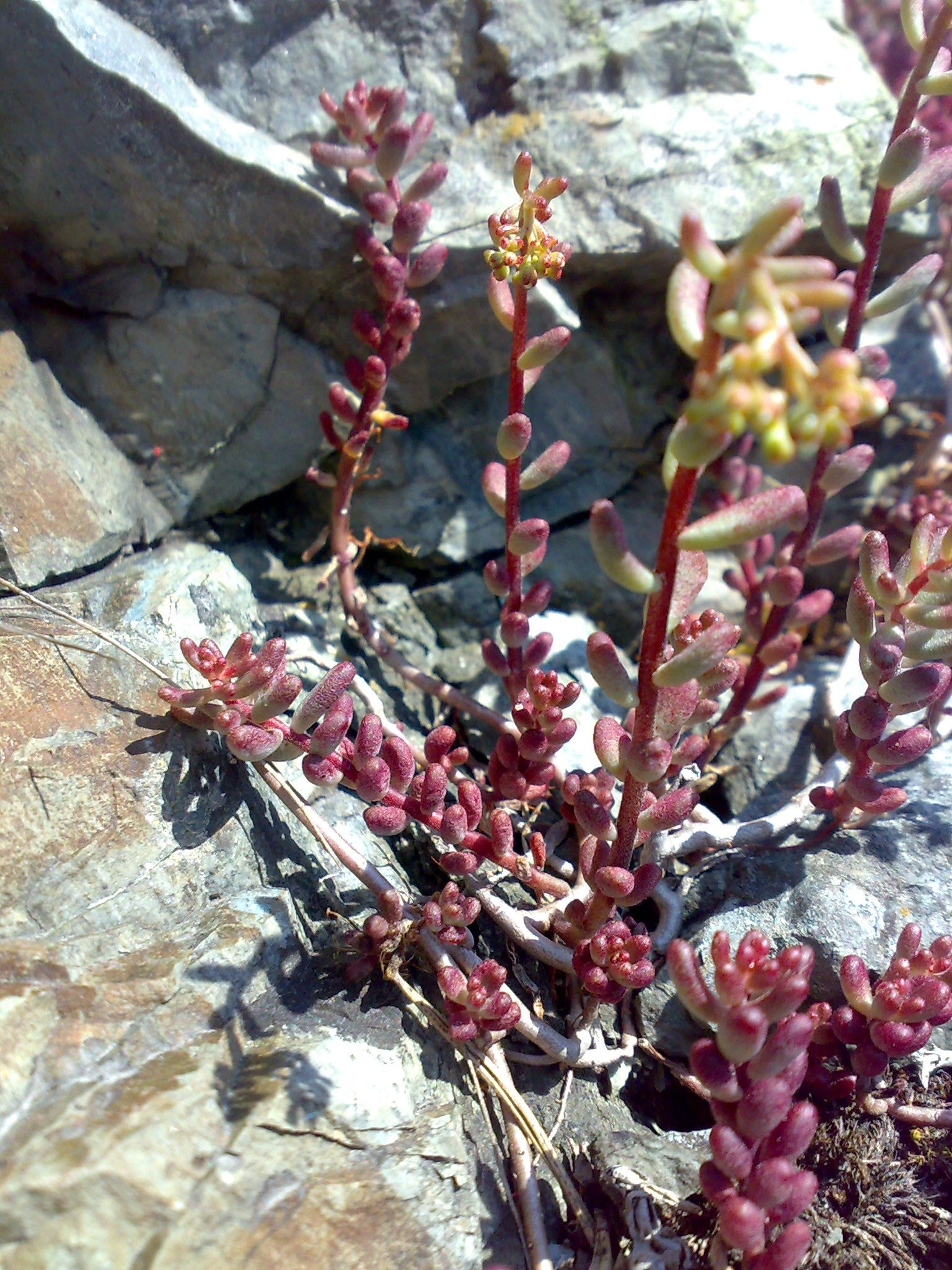 Sedum album, before flowering, Norway